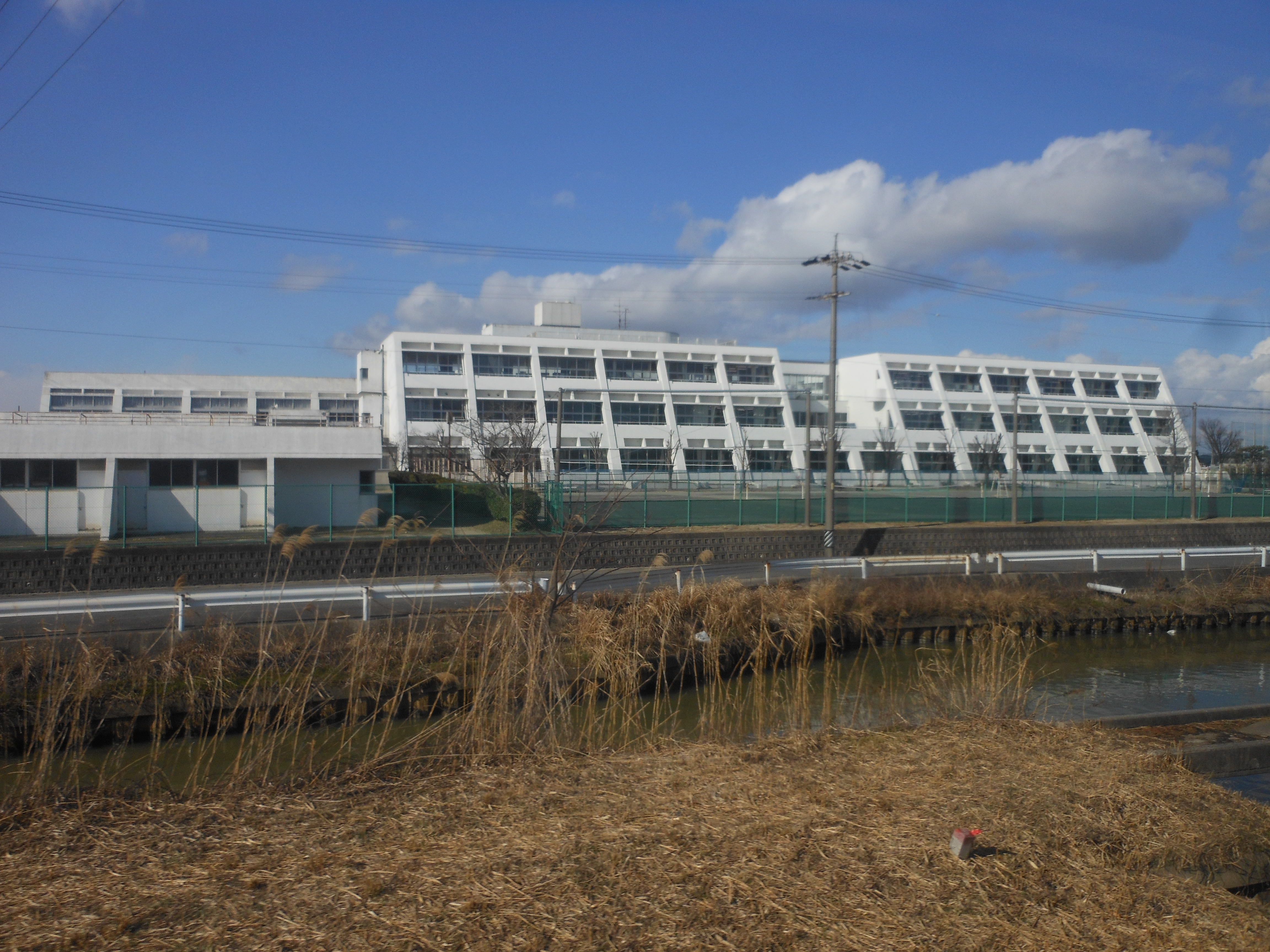 This is Yatomi city Yatomi north lower secondary school in Aichi prefecture, Japan.